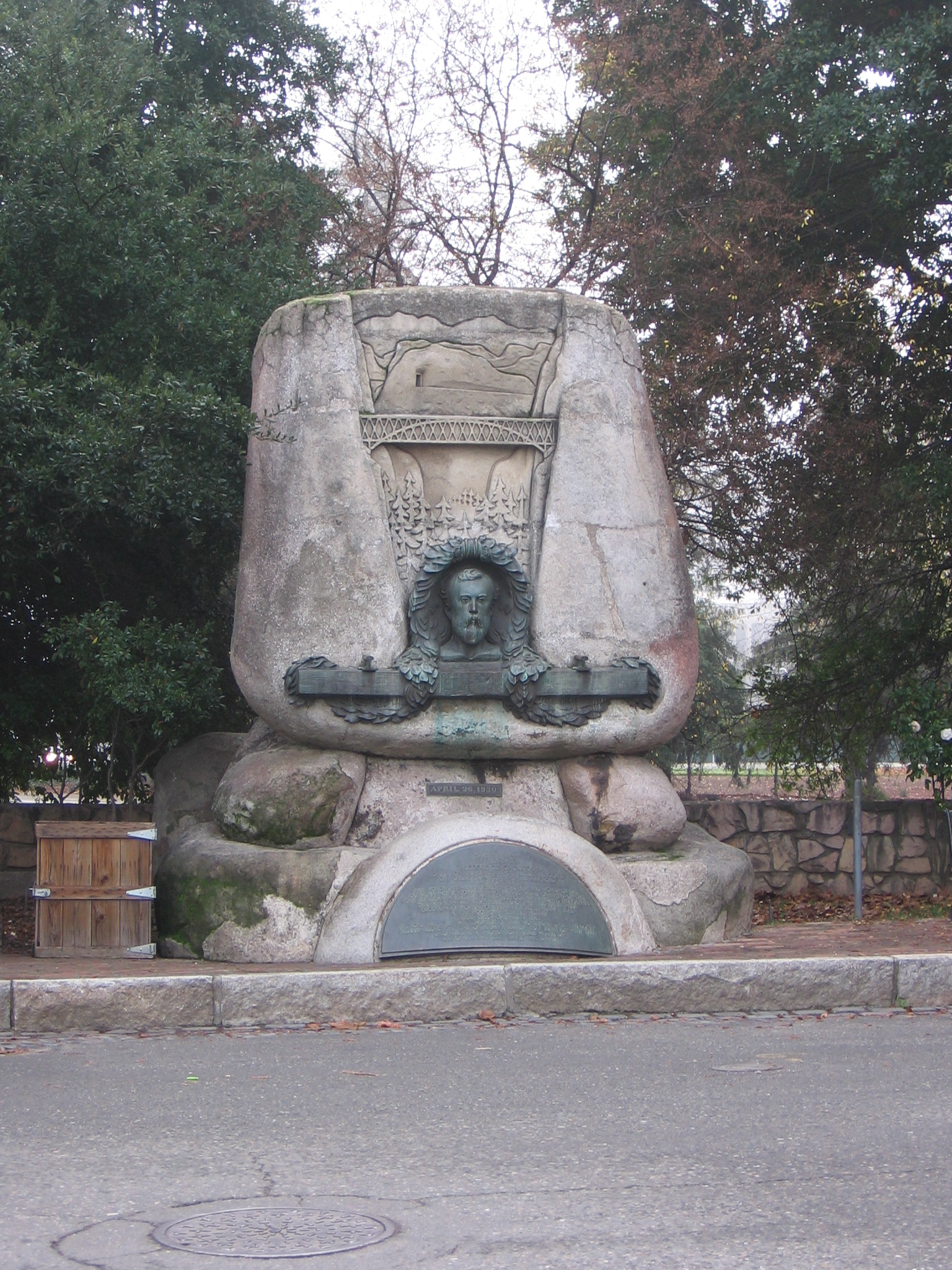 Monument to Theodore Judah erected in 1930 by employees of the Southern Pacific Transportation Company on L and 1st Streets in Old Sacramento, California, USA.